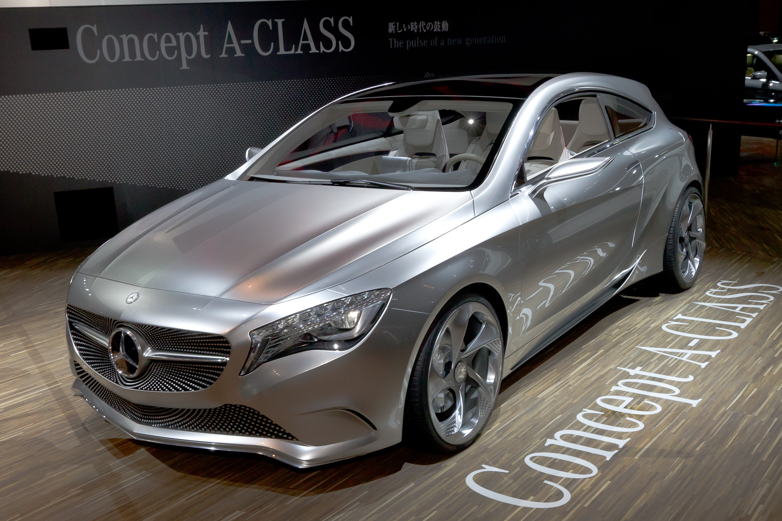 Tokyo Motor Show 2011: Mercedes-Benz Concept A-Class